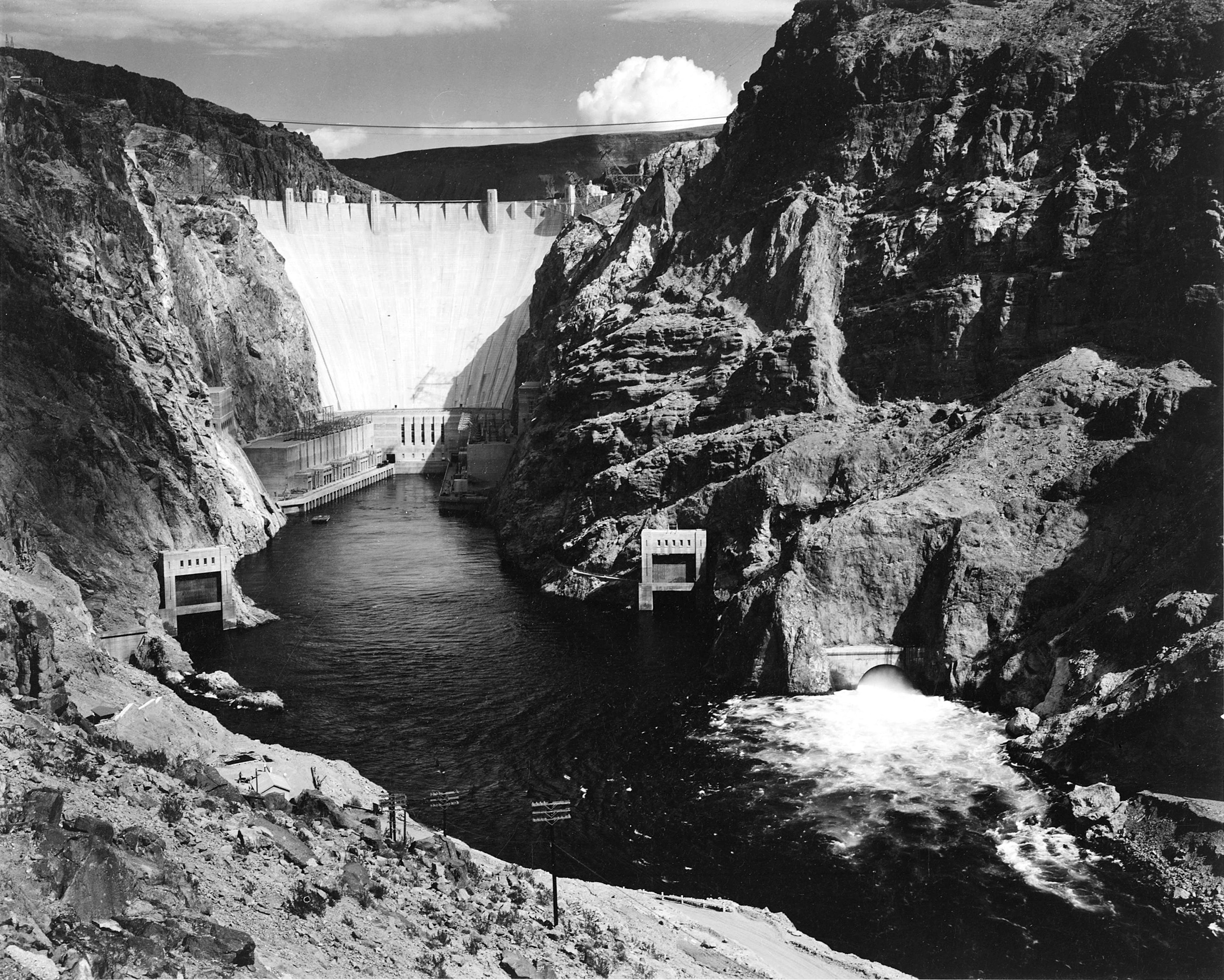 Photograph of the Hoover Dam (formerly Boulder Dam) from Across the Colorado River; From the series Ansel Adams Photographs of National Parks and Monuments, compiled 1941 - 1942, documenting the period ca. 1933 - 1942.